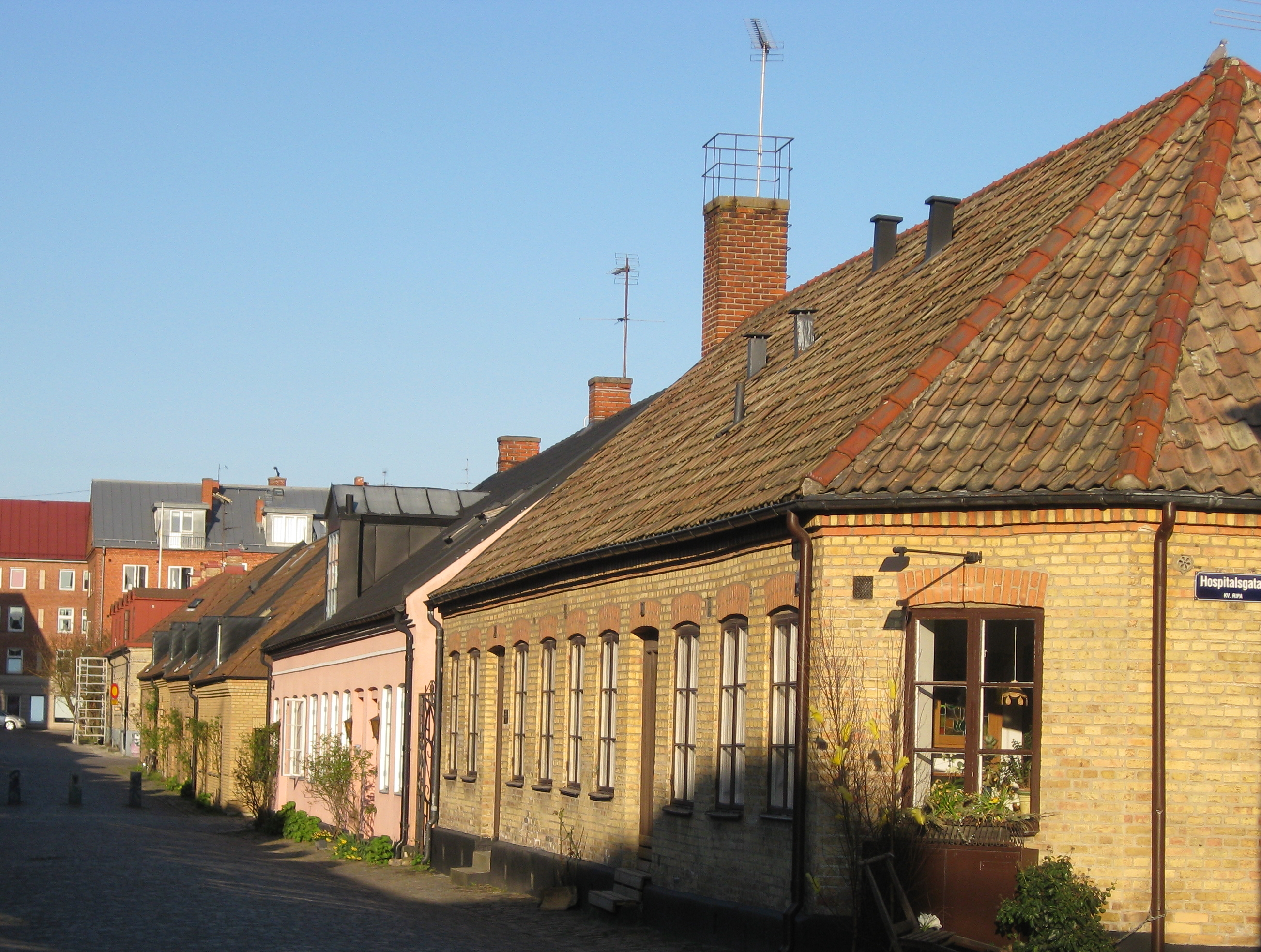 Nöden, former poor dwellings in Lund, Sweden.